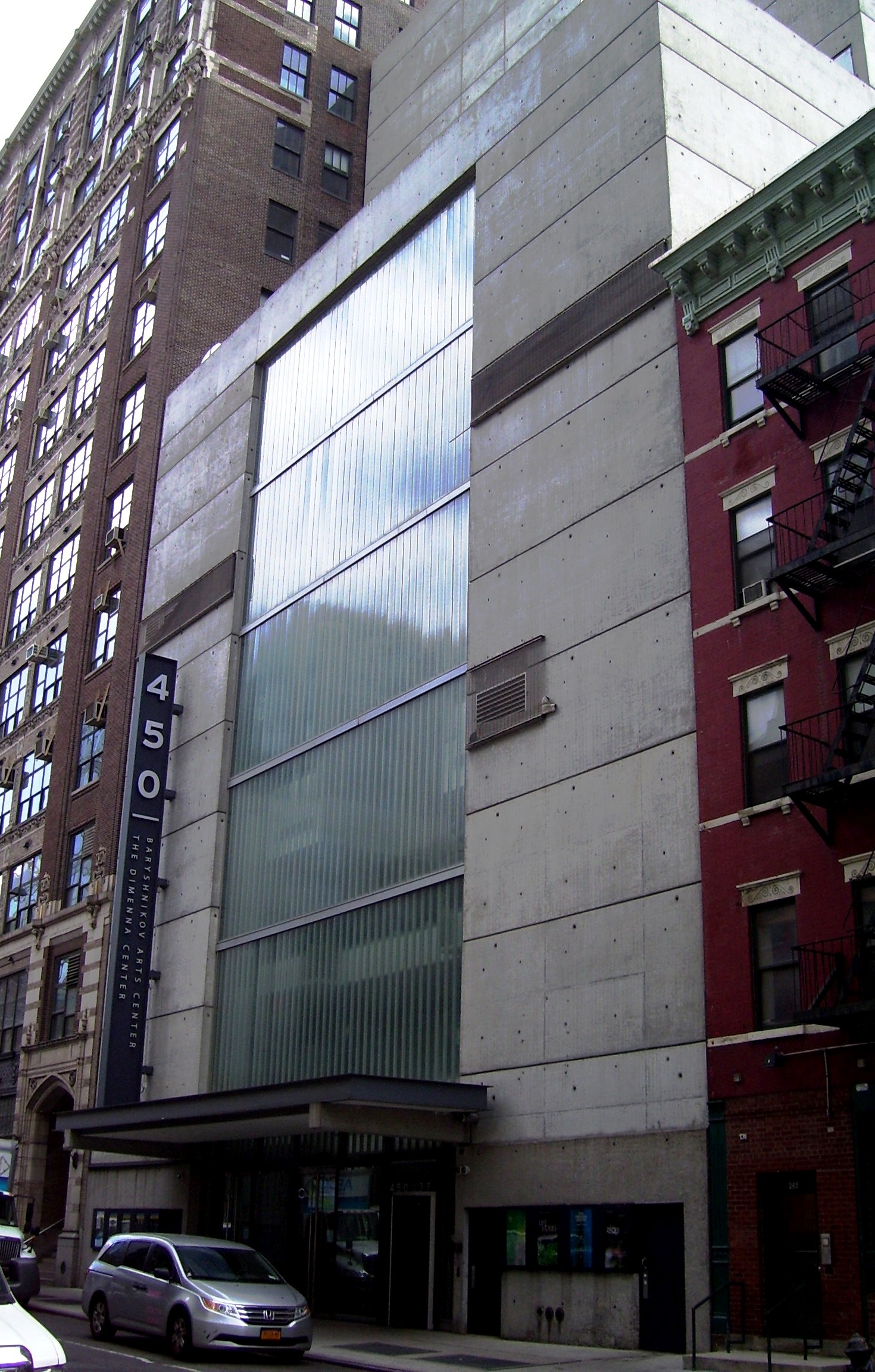 The Baryshnikov Arts Center and the Orchestra of St. Luke's' Dimenna Center located at 450 West 37th Street between Ninth and Tenth Avenues in the Hell's Kitchen neighborhood of Manhattan, New York City.